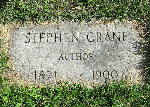 Gravestone of American author Stephen Crane in Evergreen Cemetery, Hillside, New Jersey.